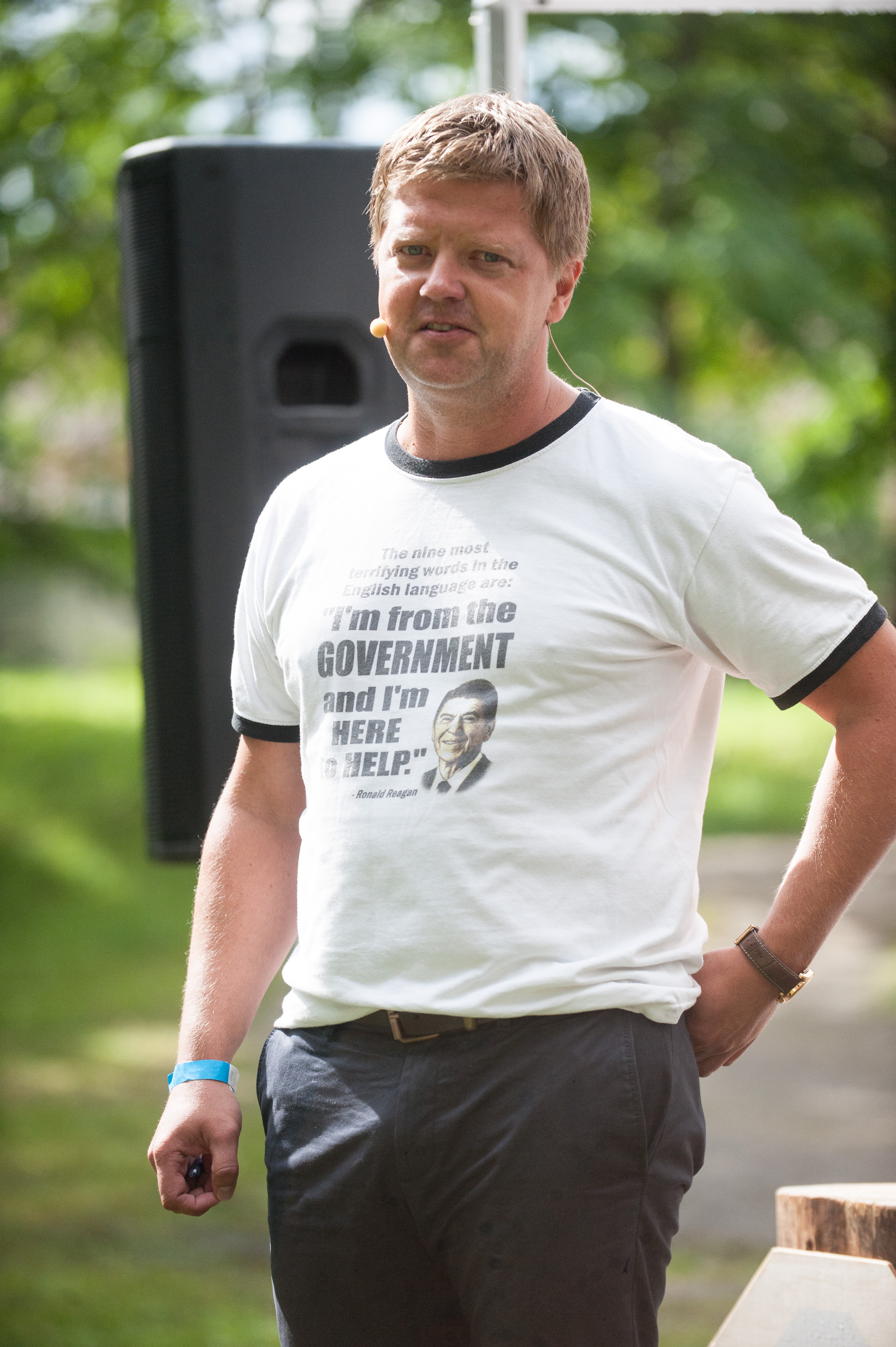 Arvamusfestival 2014: "Mis on riigi roll ettevõtluses?"